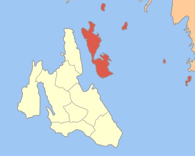 Locator map of Ithaka municipality (Δήμος Ιθάκης) in Kefallinia prefecture (Νομός Κεφαλληνίας) in Greece.